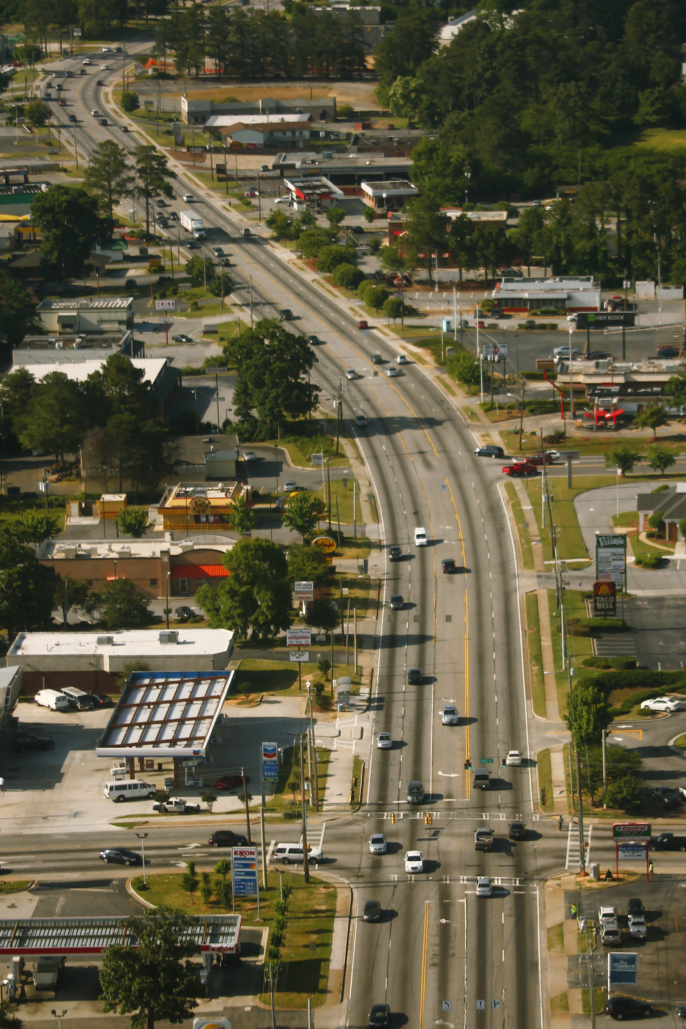 An aerial view of Georgia State Route 279, located in College Park, Georgia.